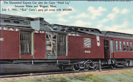 Postcard photo of the dynamited express car of the train robbed in Montana by "Kid Curry" (Harvey Logan) in 1901.